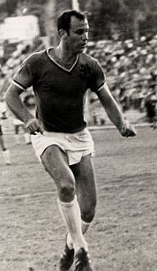 Danny Shmilo Rom דני שמילו רום